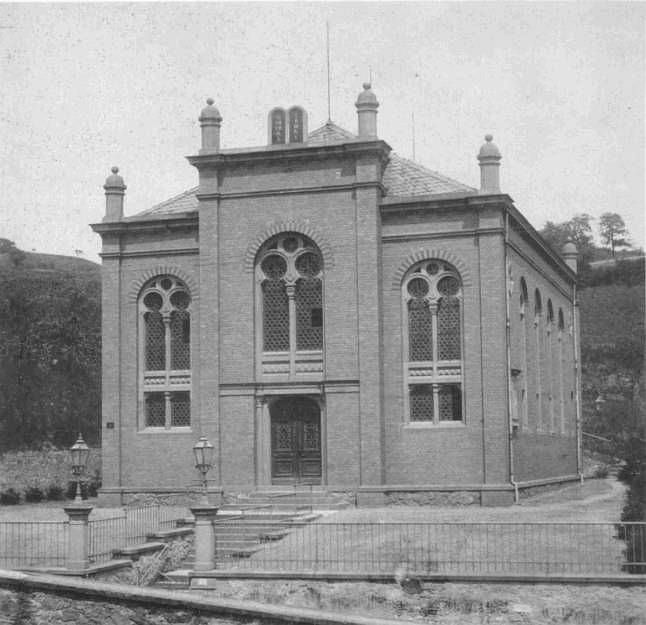 Synagogue of Bensheim circa 1900.